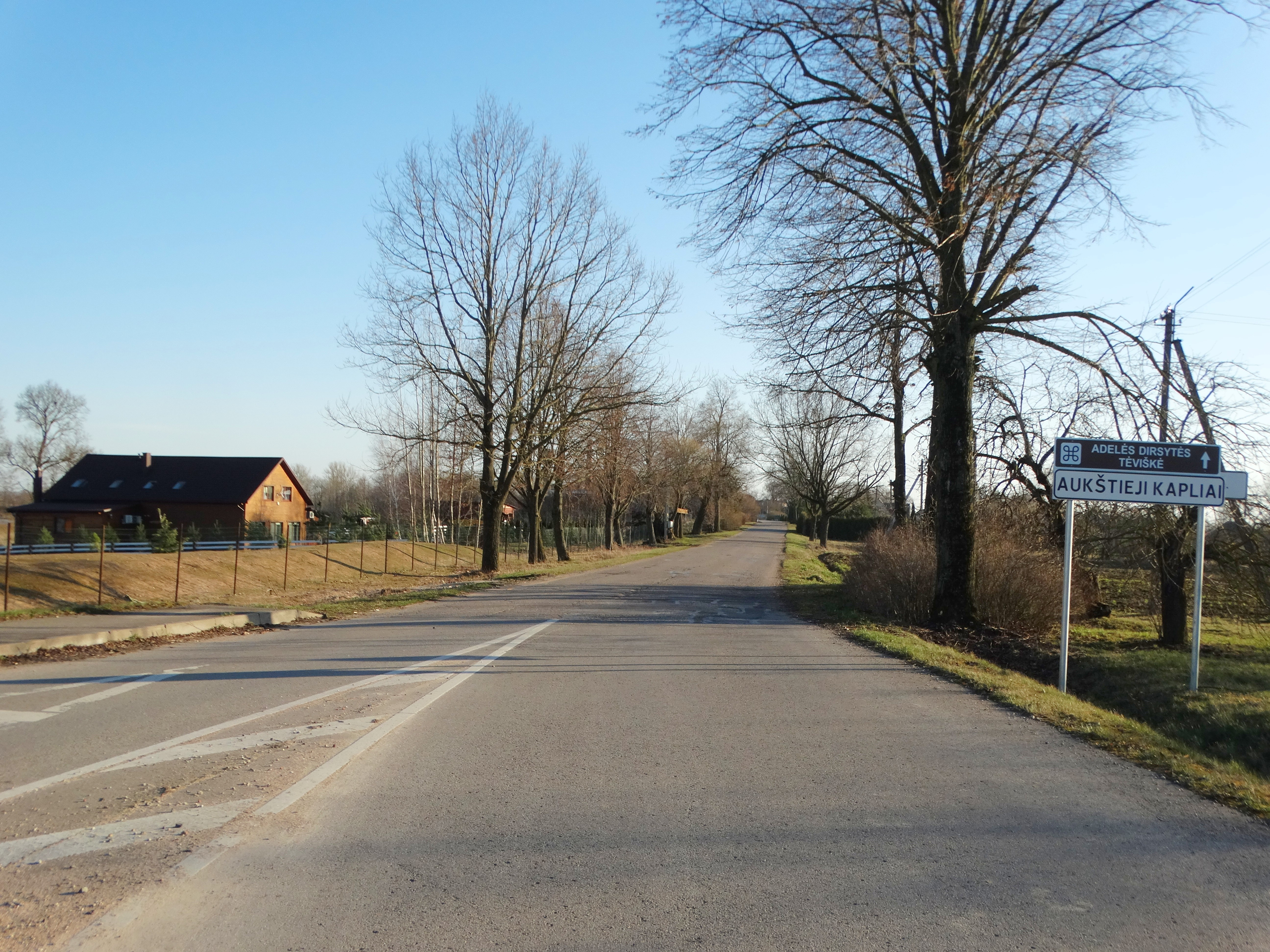 Aukštieji Kapliai, Kėdainiai district, Lithuania